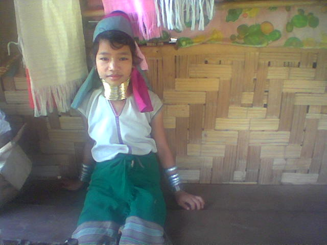 Taken by me in Myawaddy, Myanmar in 2004. This is a young Karenni girl in traditional dress undergoing neck elongation.